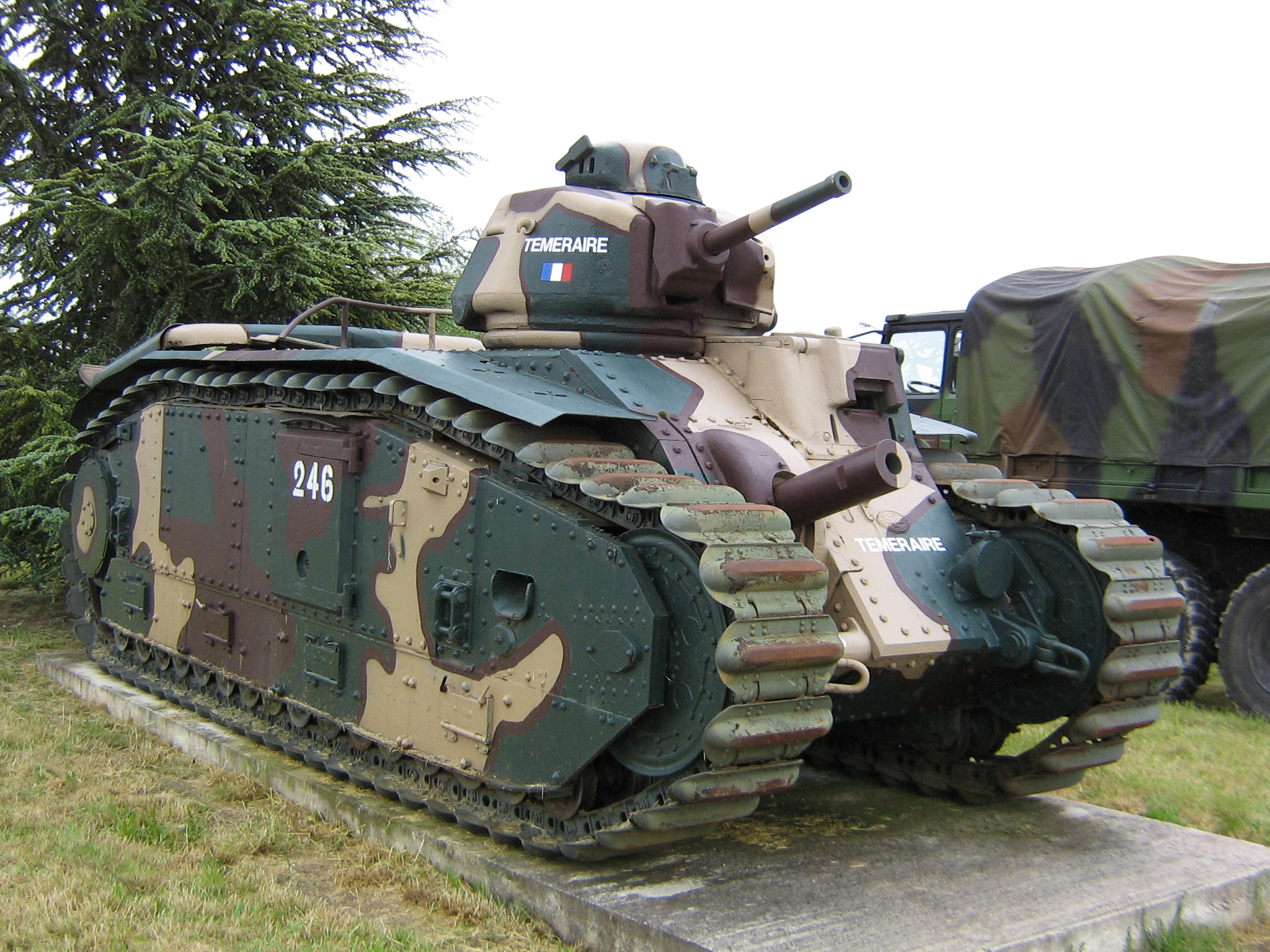 B1 bis named "Téméraire" at the Mourmelon-le-Grand military camp, France